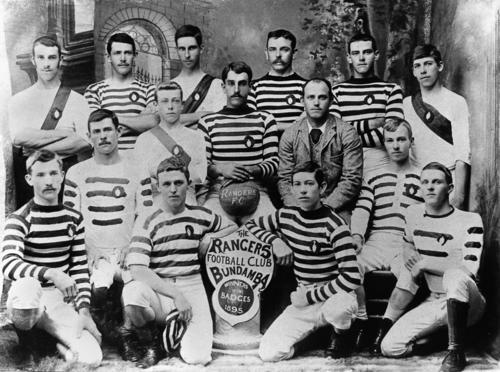 Players of the Rangers F.C. of Bundamba (Australia) posing with the winners badges.